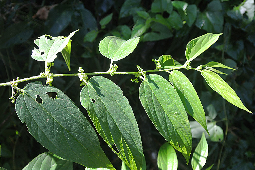 Widespread in the Neotropics with names such as Guacimilla and Jamaican Nettle Tree. Its family placement seems less certain.